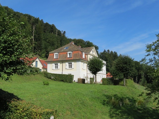 Villa Küchlin in Horben, Germany